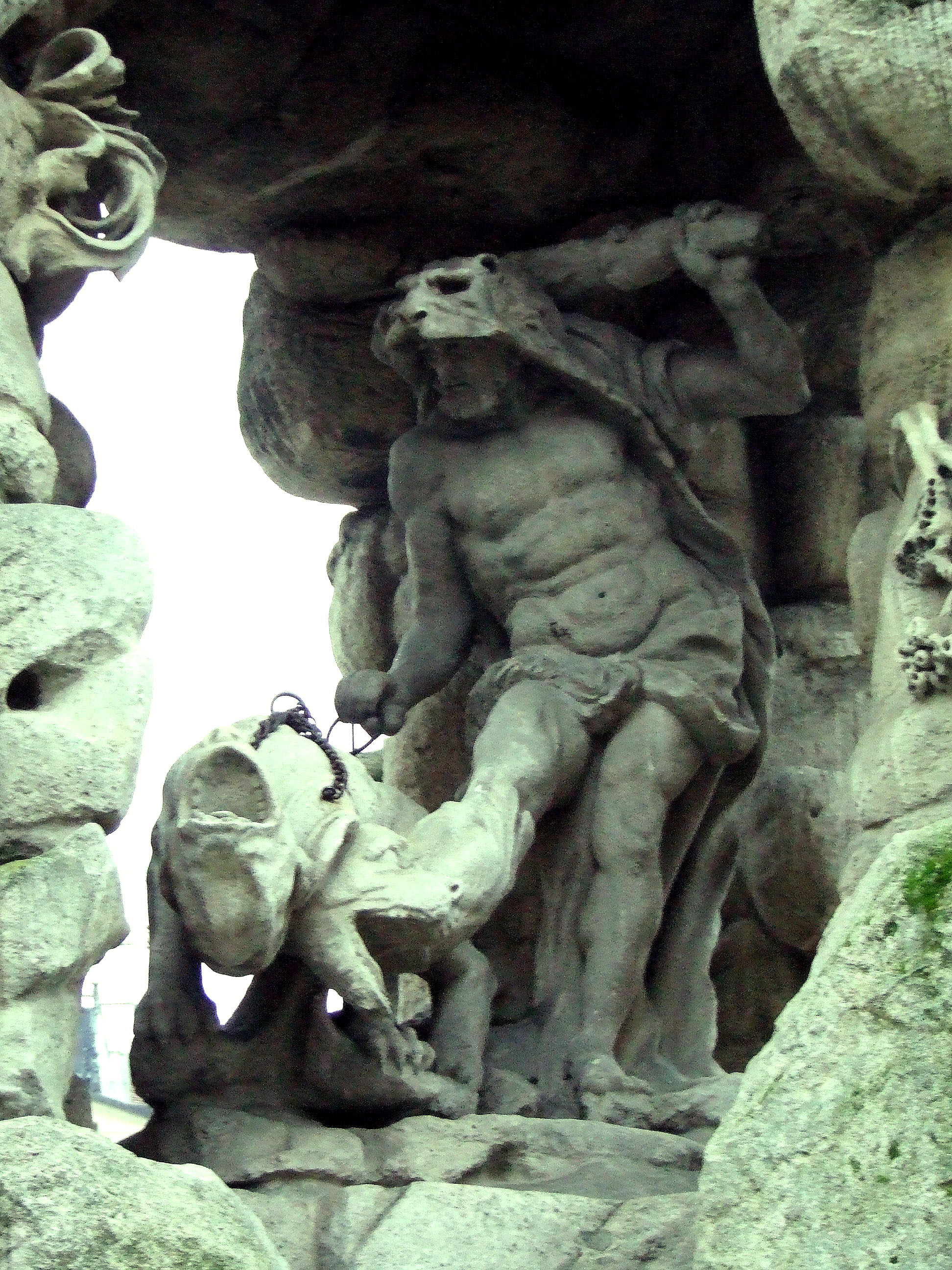 Herculec with three-headed dog Cerber from Had, Brno, Parnas fontana